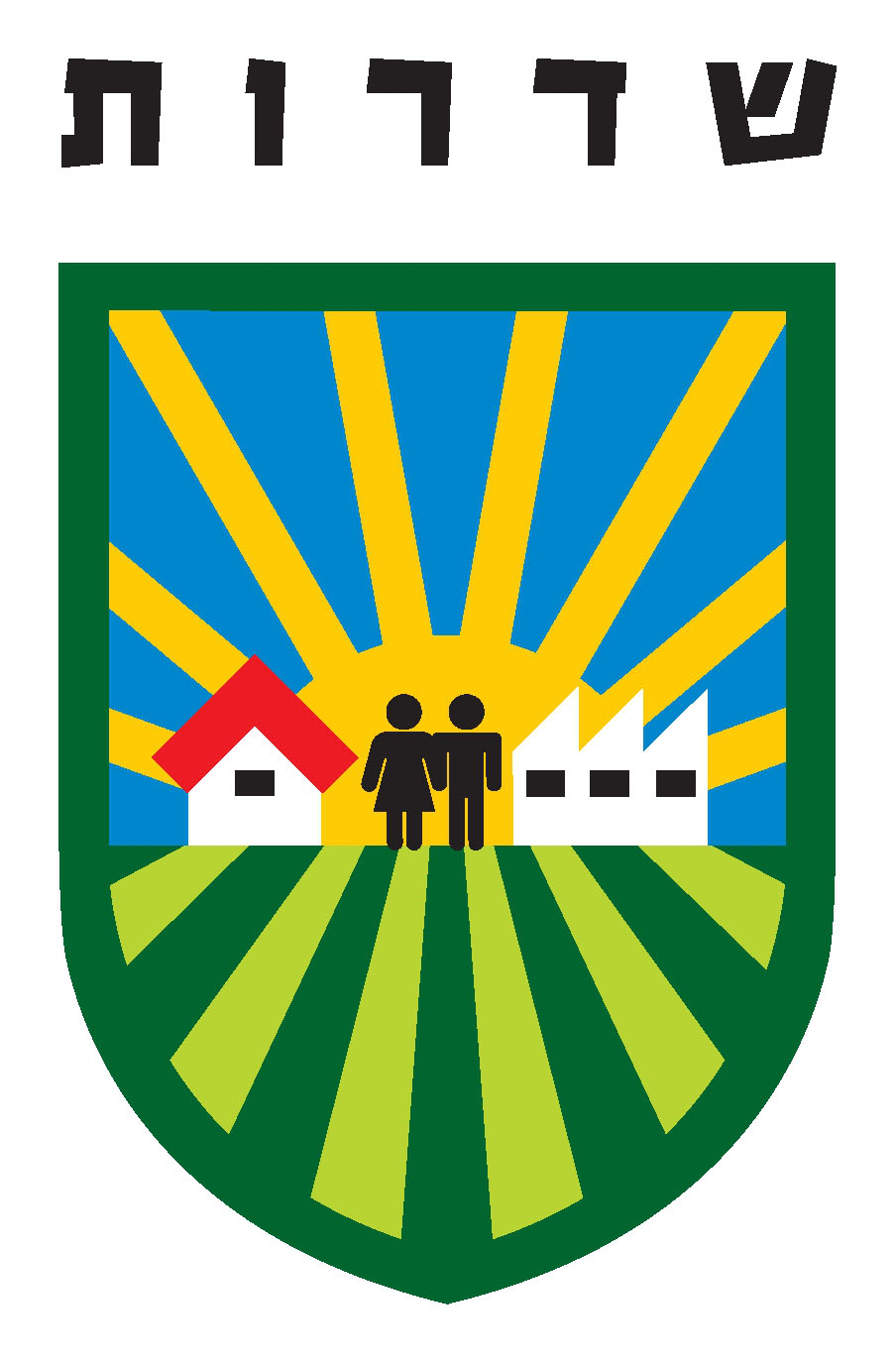 Coat of arms of Sderot